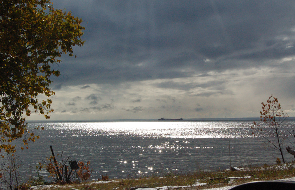 Lake freighter on Whitefish Bay. Taken just north of Paradise, MI.